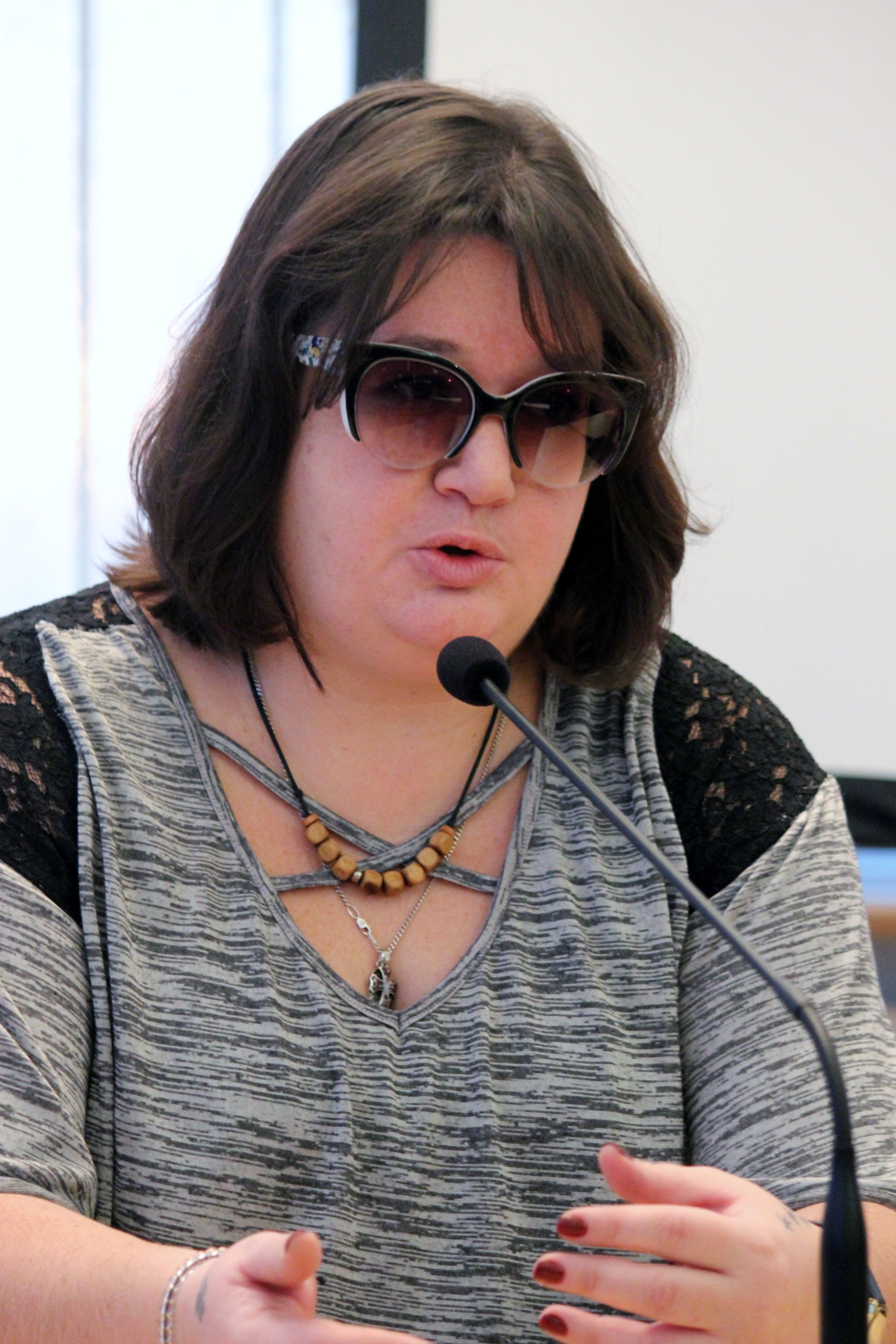 Russian journalist Natalia Kim at the 20 Moscow International Fair Non/fiction 2018